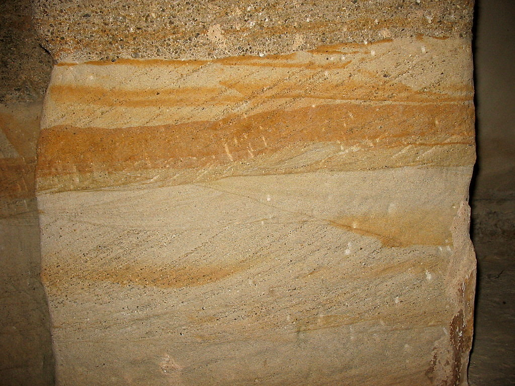 Olleros of Pisuerga, Palencia, Spain - Chapel of Saints Justo and Pastor. Column carved in the Utrillas Formation sandstone (Upper Albian-Cenomanian, Cretaceous). Cross-bedding and superimposed Liesegang banding.